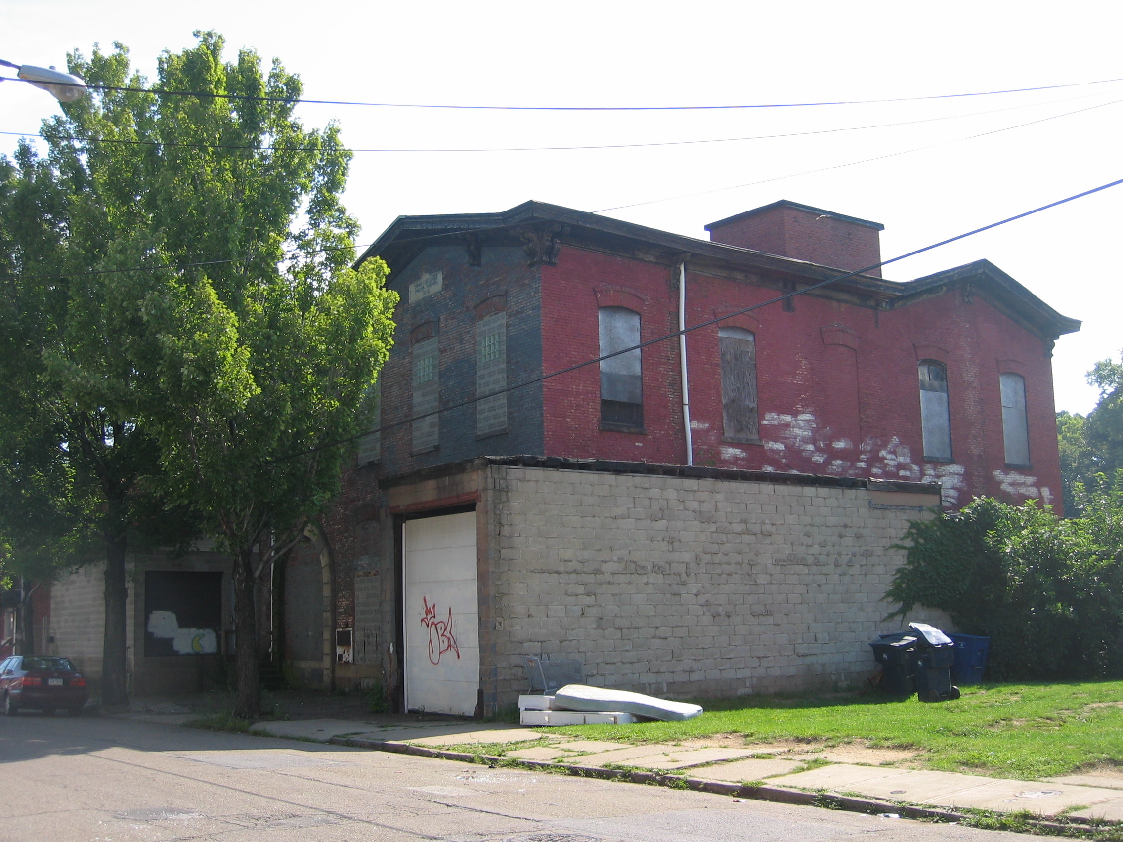 A view of the vacant Bayard School building in the Upper Lawrenceville neighborhood of Pittsburgh, Pennsylvania. All openings in the building have been sealed with plywood or cement block and two large concrete block projections have been added to the front of the structure.